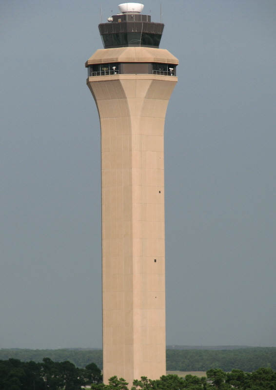 Control Tower at KIAH - Houston, TX.